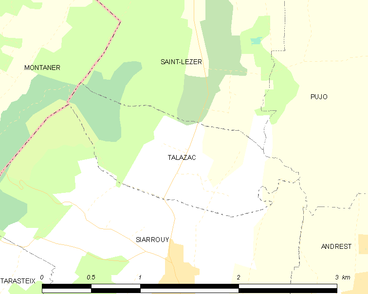 Map of French municipality